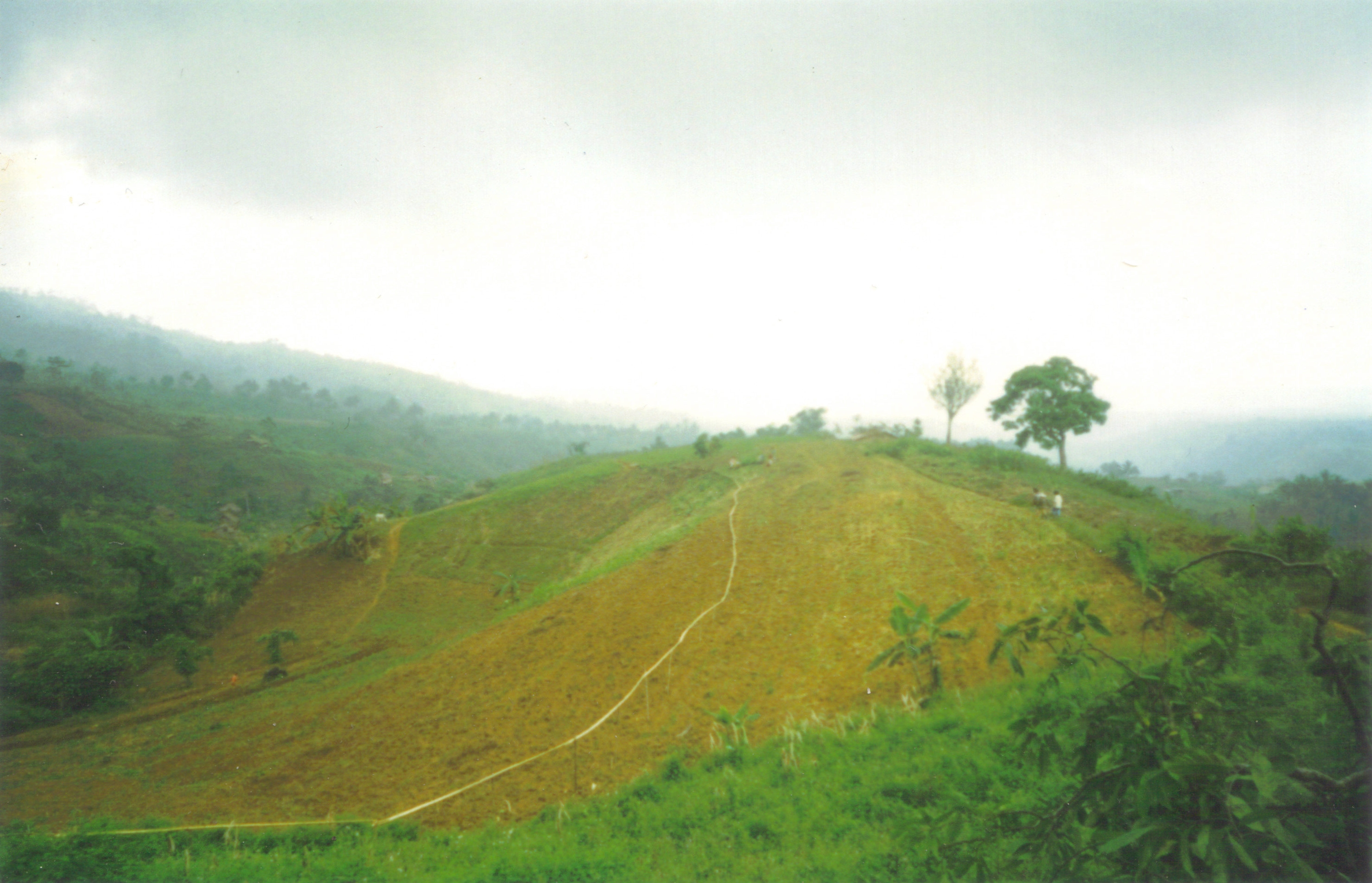 The slopes of Mount Malindang - own work, mid october 1997